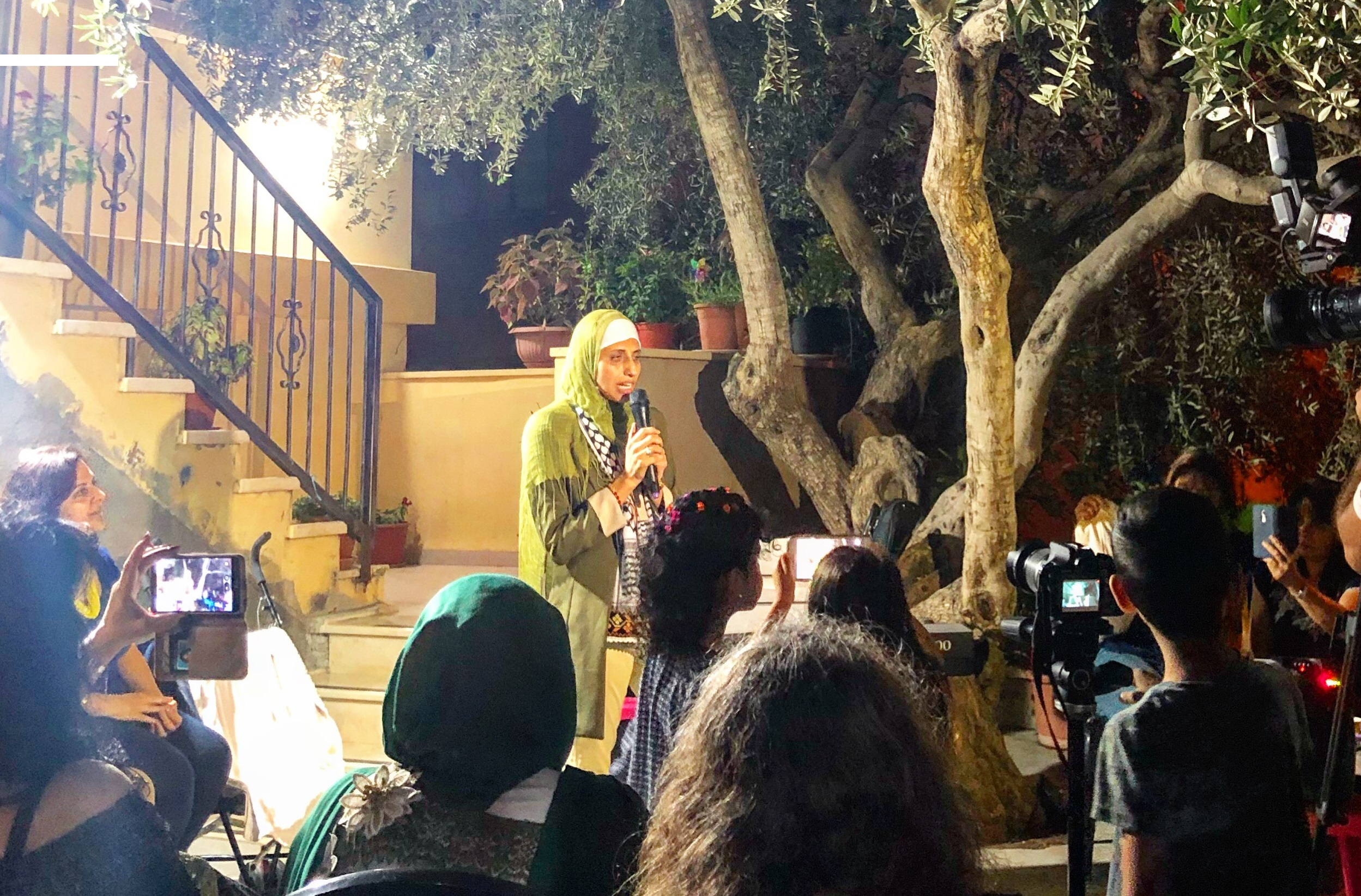 Support event with Dareen Tatour before entering prison, 2018